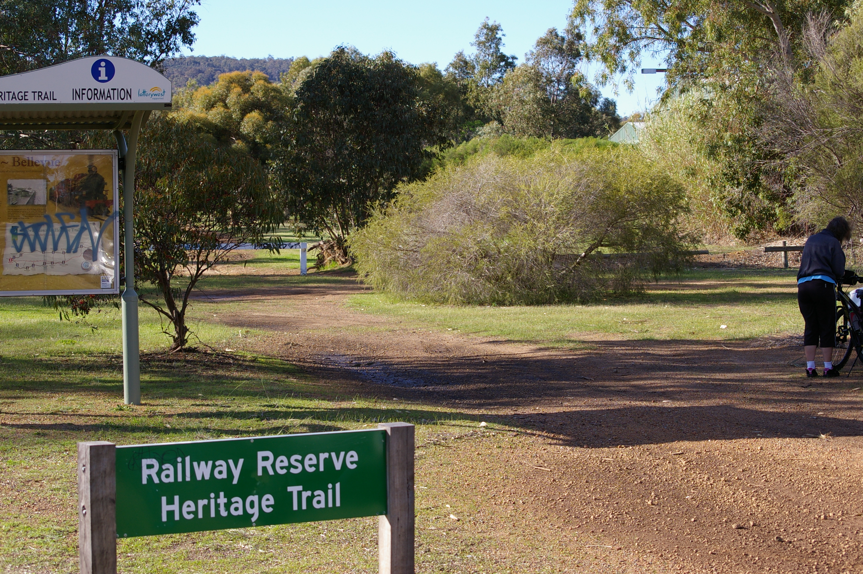 Railway Heritage Reserve Trail, a section of the Eastern Railway at Bellevue, Western Australia now maintained by the Mundaring Shire as a walking trail